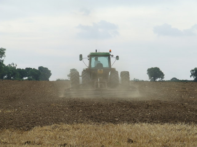 A cloud of dust A cloud of dust when tilling the land after ploughing in the stubble from the recent harvest near to Great Moulton Norfolk.